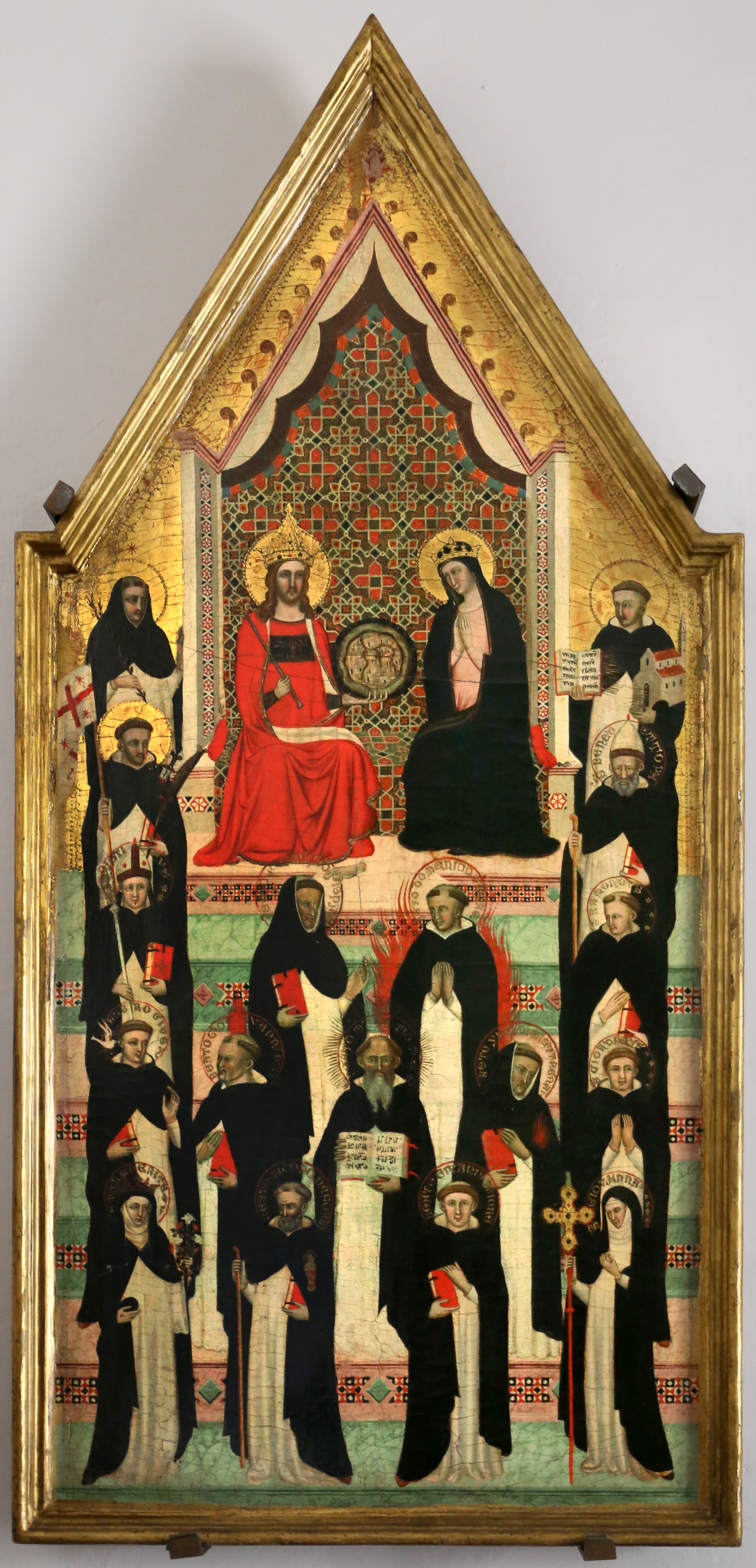 Santa Maria Novella - Convent